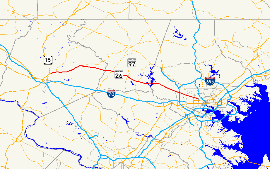 Map of Maryland Route 26